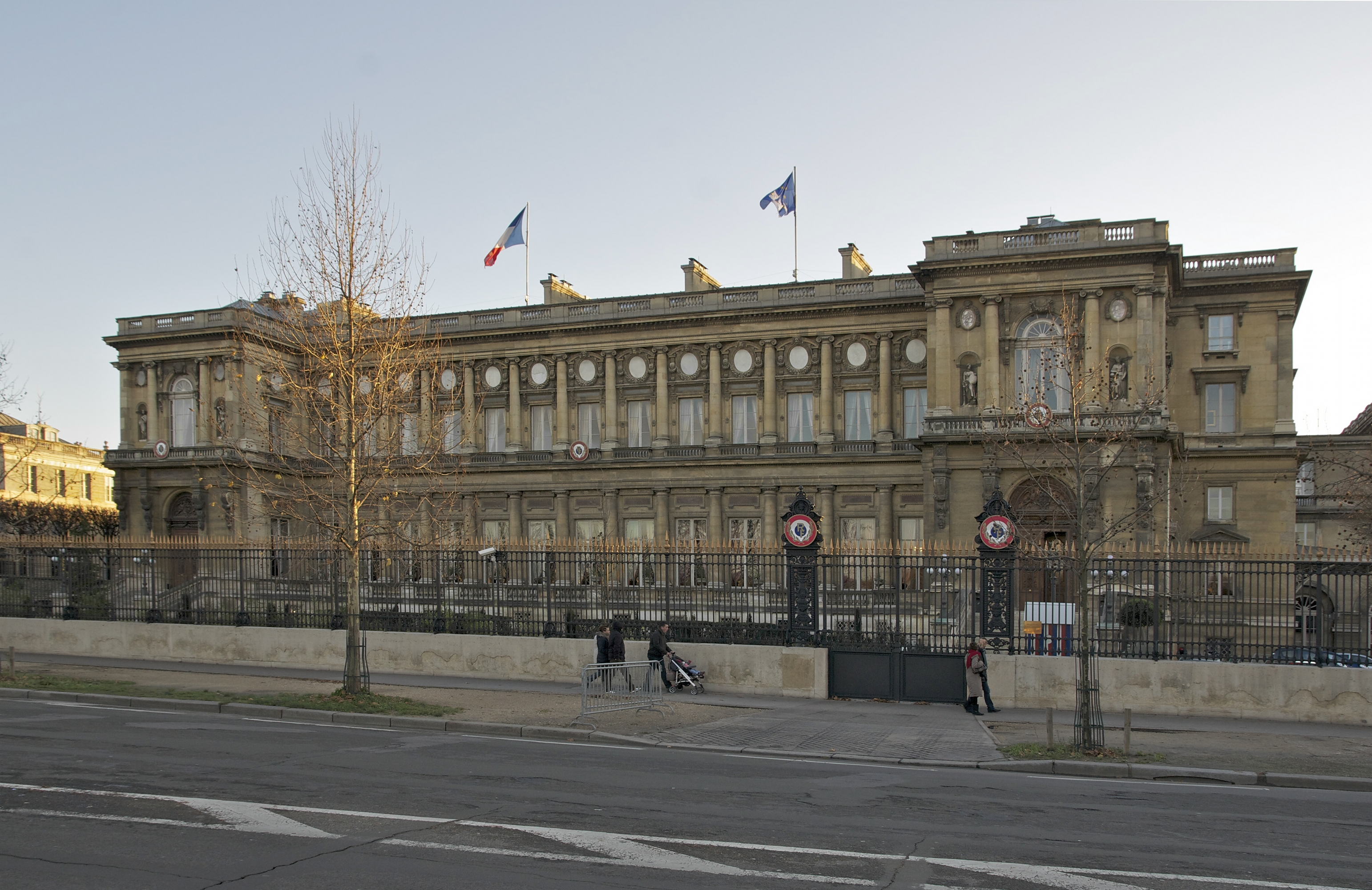 The french Ministry of Foreign and European Affairs, facade quai d'Orsay, Paris.